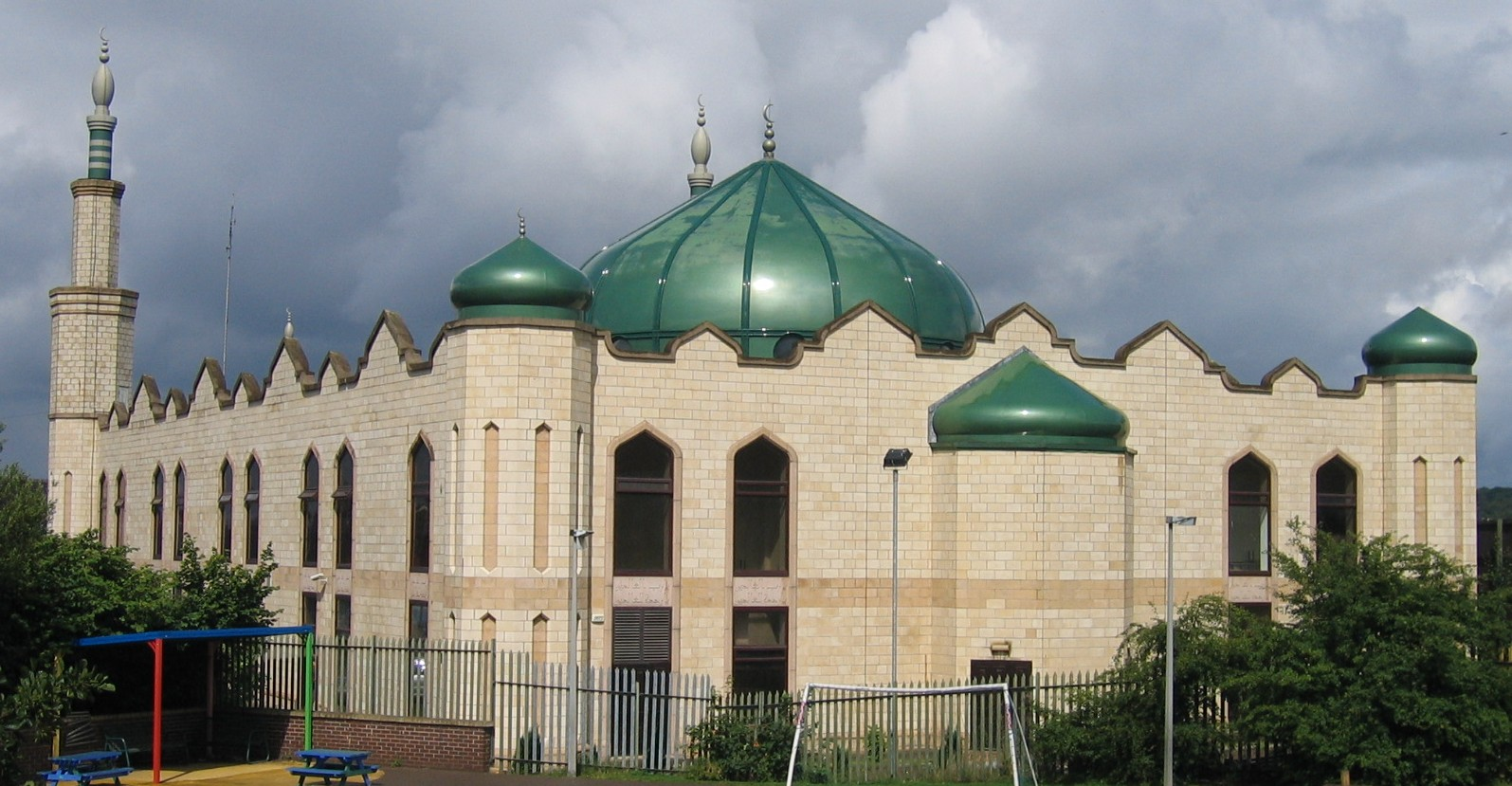 Mosque, Markazi Jamia Masjid Bilal, Harehills Place, Leeds, LS8 5GL, viewed across the playground of Harehills Primary School